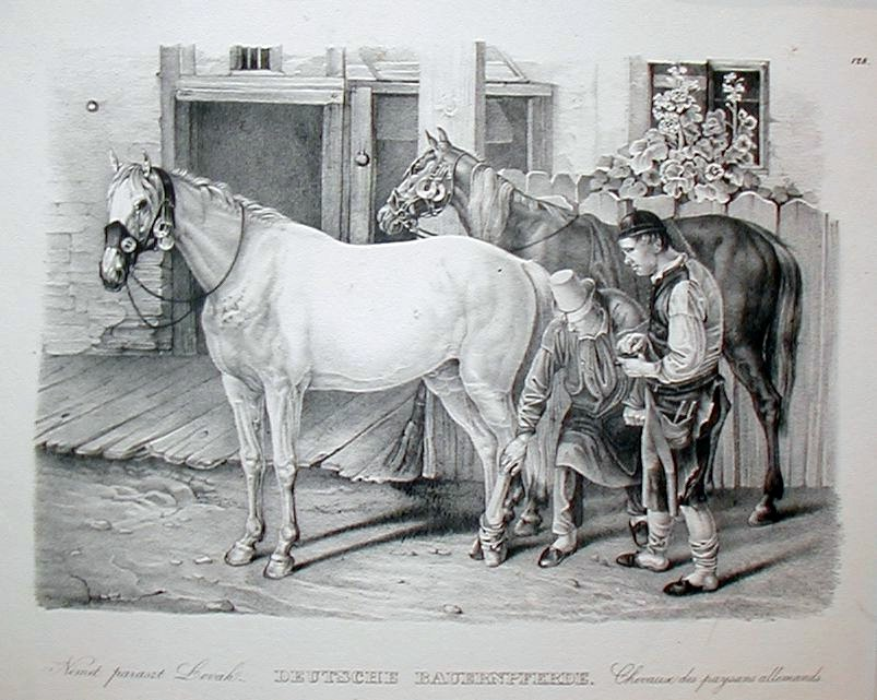 Deutsche Bauernpferde. 26 x 38 cm.